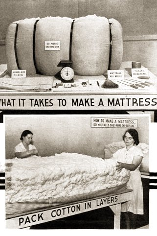 A USDA circular promoting home production of cotton mattresses. Materials needed to make a mattress included "10 Yards--8 oz. Ticking," "50 Pounds Long Staple Cotton," "Mattress Roll Needle," and "Thread for Making Roll." Series I, subseries 1, Documentary Files (1914-1939), Box 1.1/8, file "VI B9. Cotton mattress program, Book 1, 1940," USDA History Collection, Special Collections, National Agricultural Library.